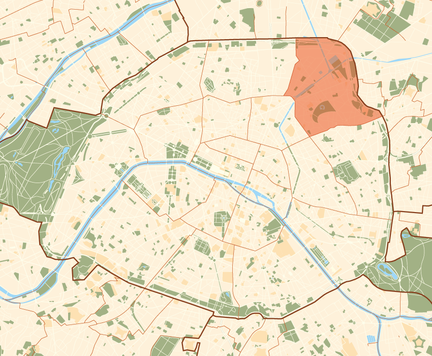 Plan by ThePromenader (own work)